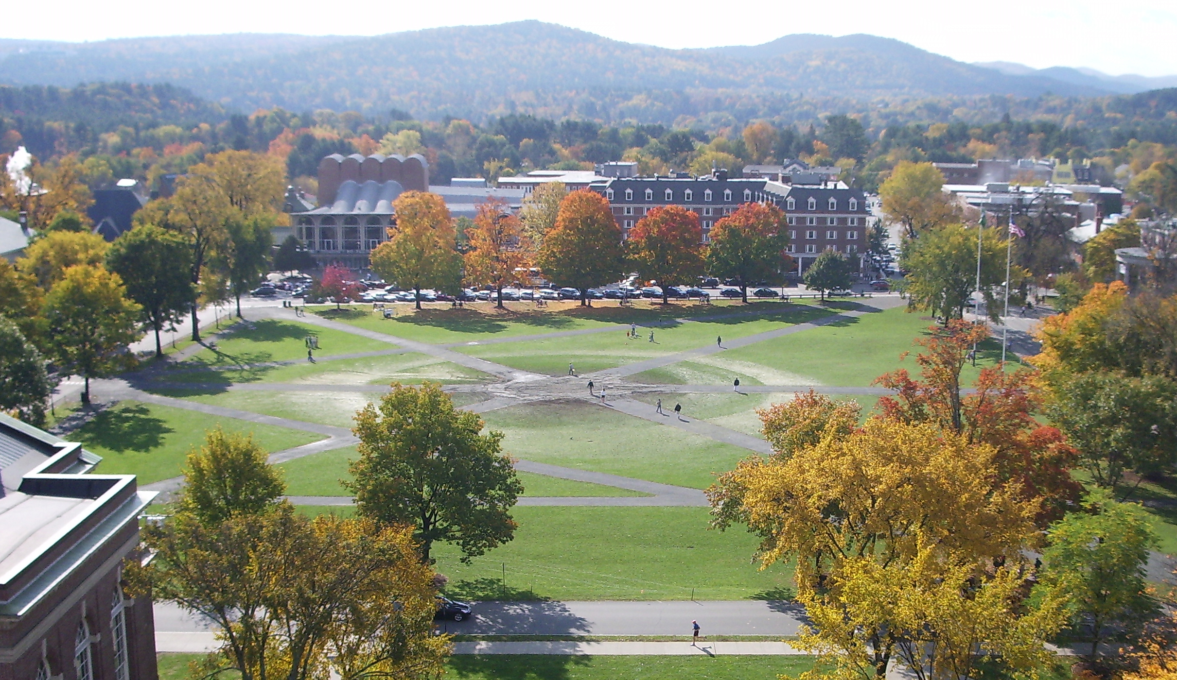 A photo of The Green at Dartmouth College in Hanover, New Hampshire, taken from the tower of Baker tower, the Saturday morning of 2007 Homecoming. The darkness at the center of the green is due to the burning of the bonfire the night previous at the center, and the light ring of grass beyond that has been trampled down by freshmen ('11s) running around the fire.